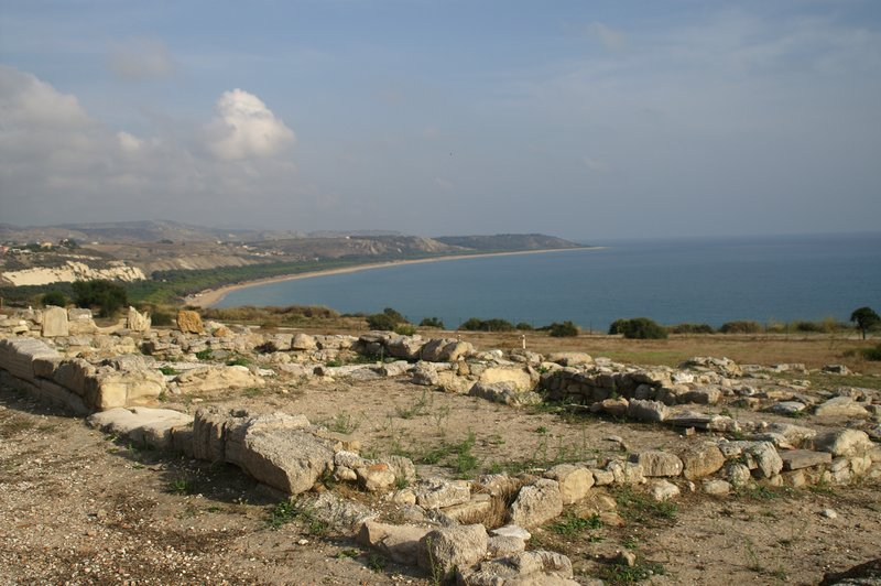 Eraclea Minoa: Archeological Site